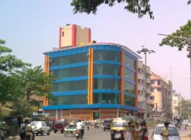 This Mall is Located in the Heart of Jamshedpur with a capacity of 20000 sq ft. approx.